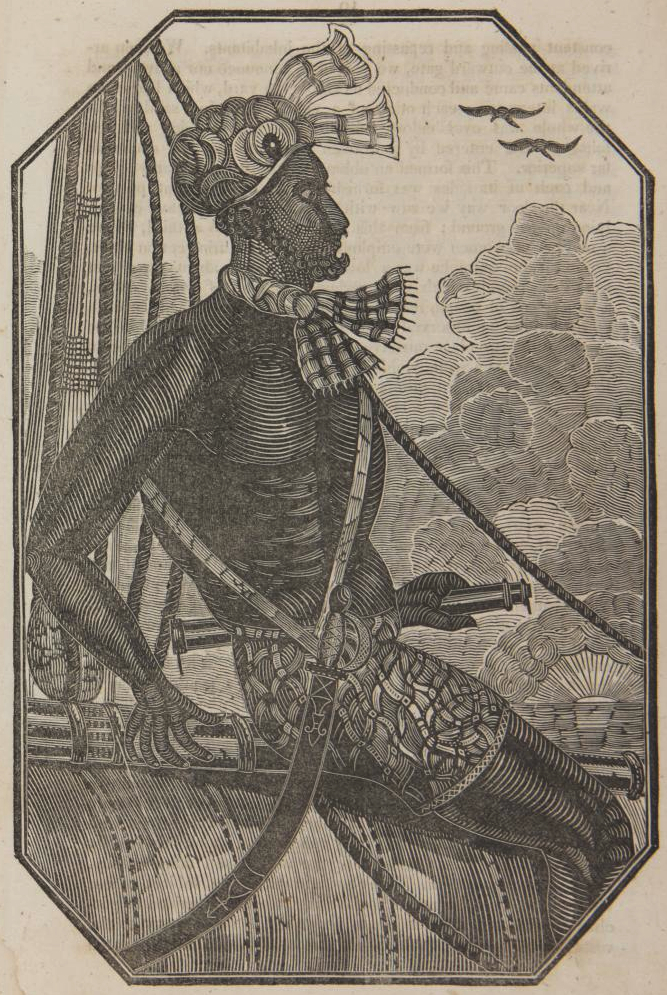 A true history of the African chief Jingua and his comrades : with a description of the Kingdom of Mandingo, and of the manners and customs of the inhabitants, an account of King Sharka, of Gallinas : a sketch of the slave trade and horrors of the middle passage, with the proceedings on board the "long, low, black schooner," Amistad.